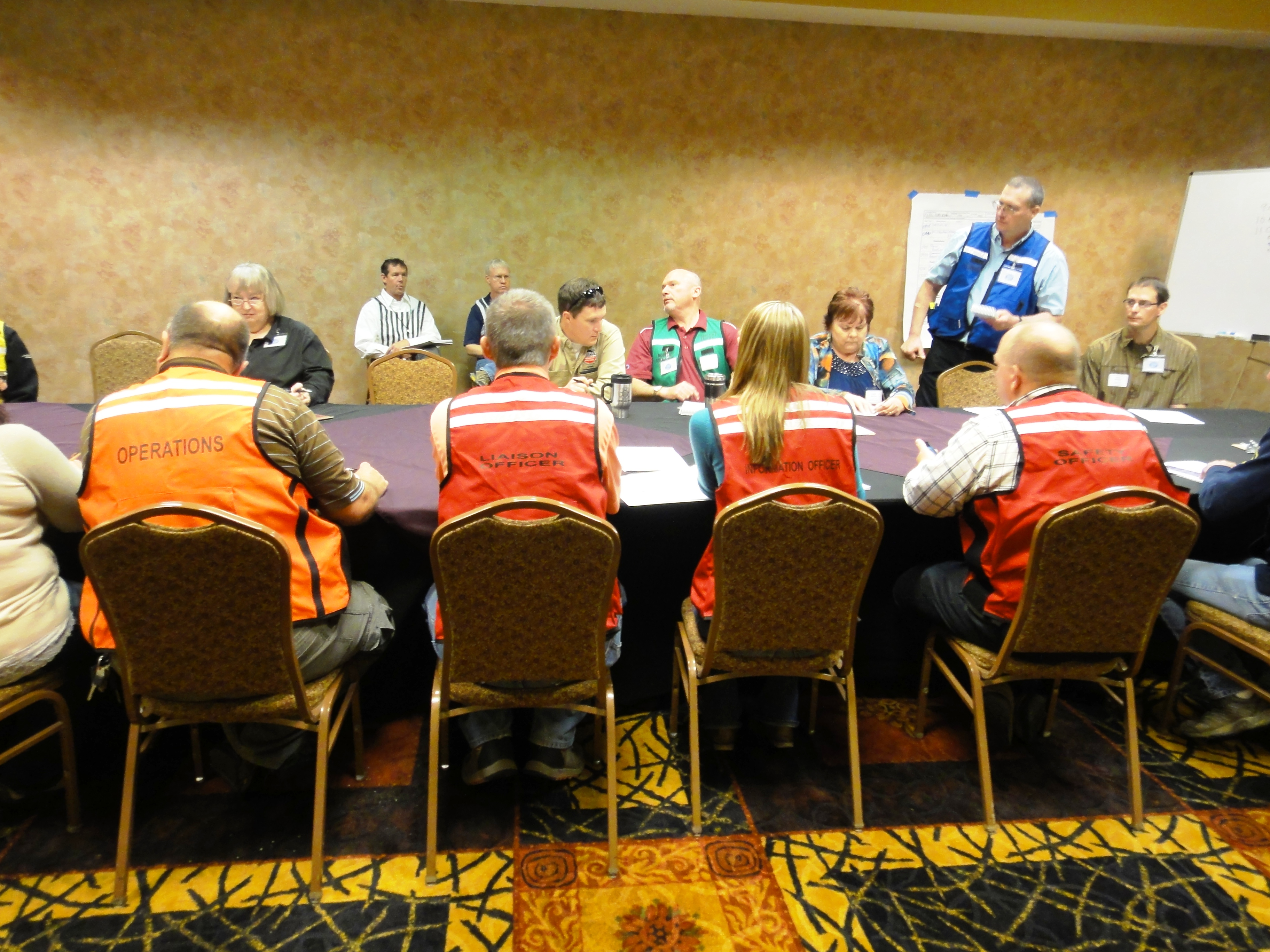 Our staff members, along with other exercise participants, attend a planning meeting to support the simulated oil cleanup.